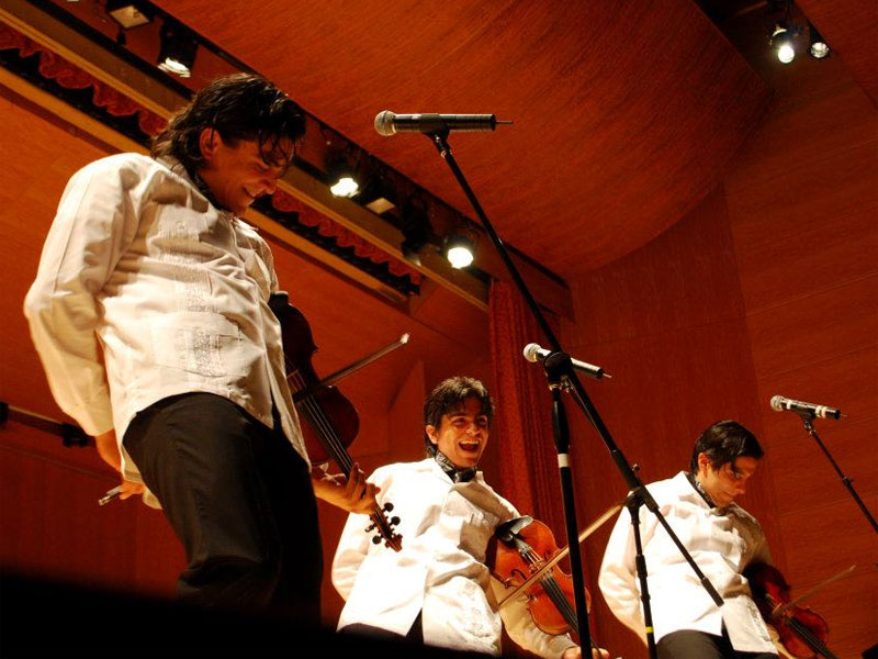 The Villalobos Brothers performing at the Metropolitan Museum of Art